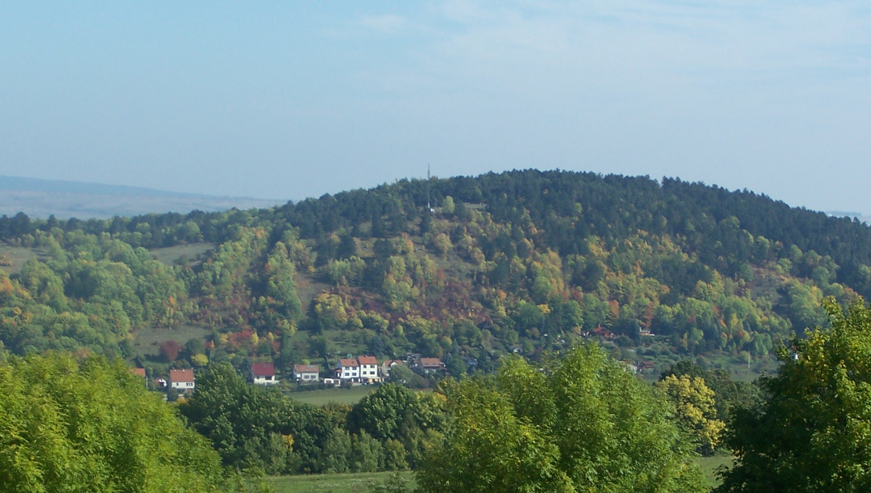 The Petersberg in Eisenach.